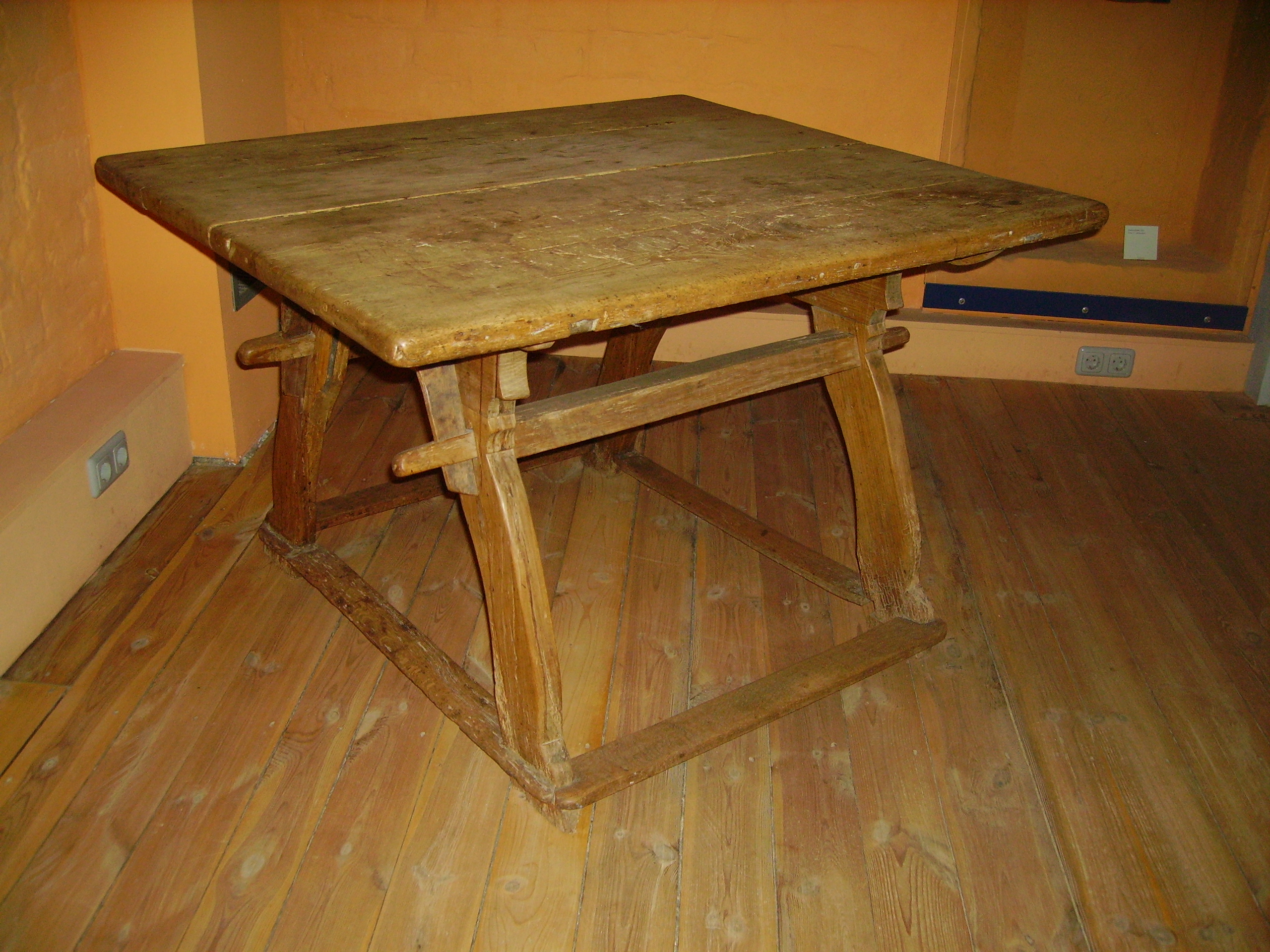 Table from the 17th Century, museum Wittstock.